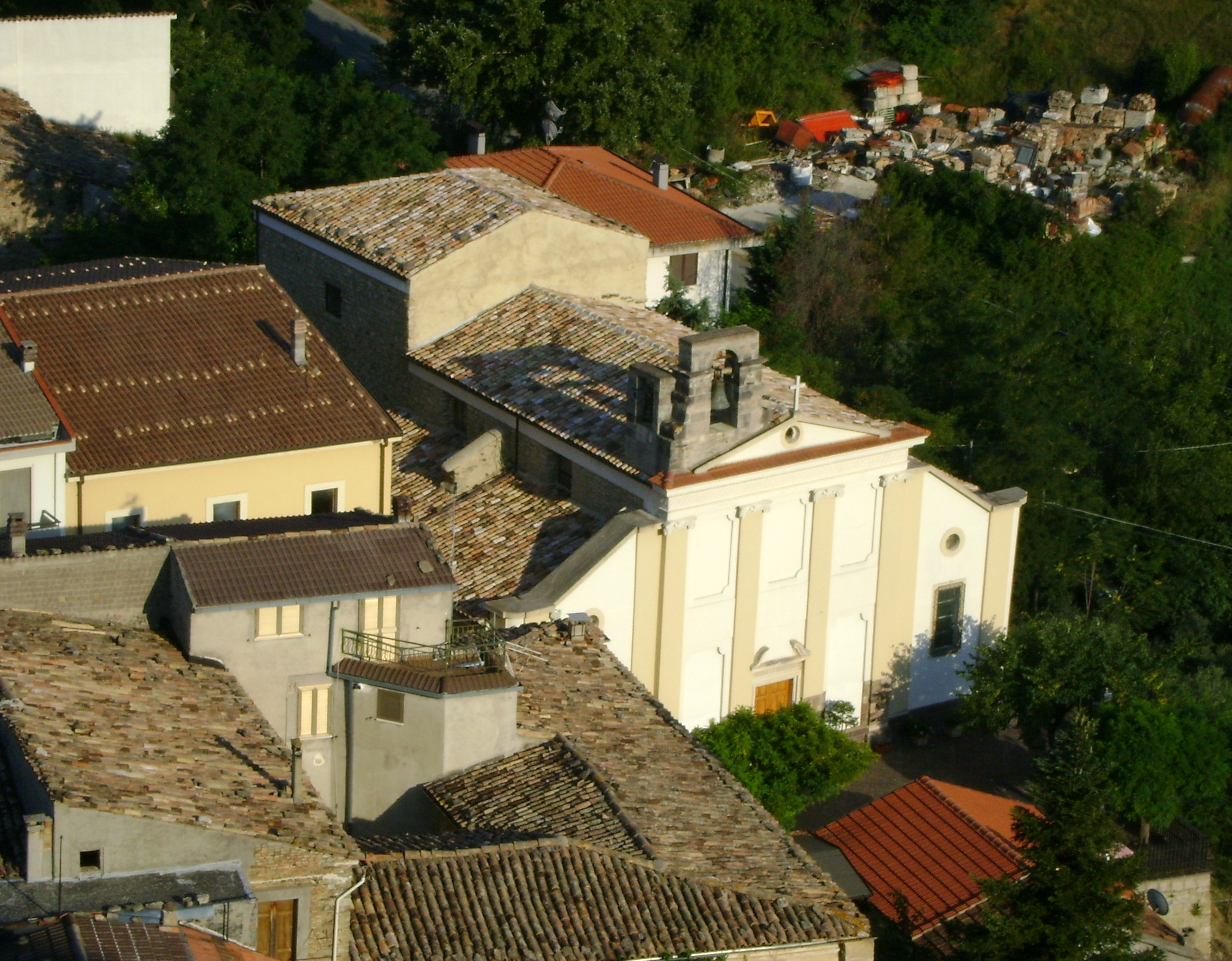 The church of Saints Cosmas and Damian, Roccascalegna, province of Chieti, Abruzzo